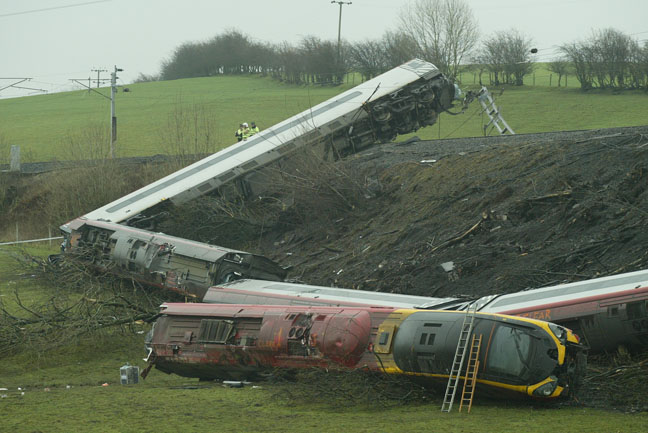 Photograph of the derailed Virgin Pendolino unit 390 033 "City of Glasgow" after the Grayrigg derailment. It was formally written off on 30th November 2007, 9 months and one week after the derailment. Undamaged cars became used at Crewe training centre. One passenger was fatally injured in the derailment. Until October 2014 a non-leaning, slower train with superficially similar profile, hence nicknamed a pretendolino, was upholstered in Virgin livery and ran weekly in this locomotive's stead.